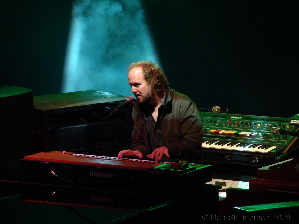 Page McConnell performing with Phish at Red Rocks Amphitheater in Morrison, Colorado July 30, 2009